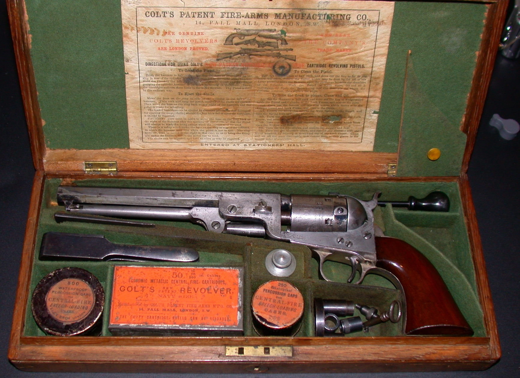 Cased Colt Thuer Conversion, patented Sept. 15, 1868